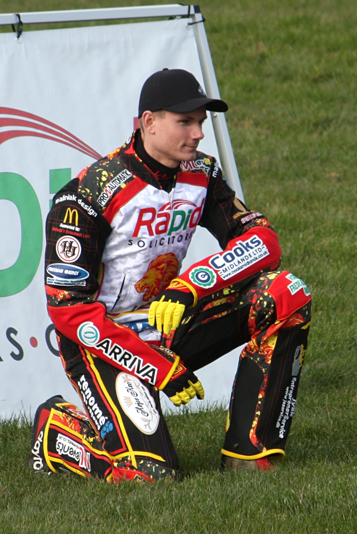 Patrick Hougaard at the Leicester Lions 2014 Press and Practice event